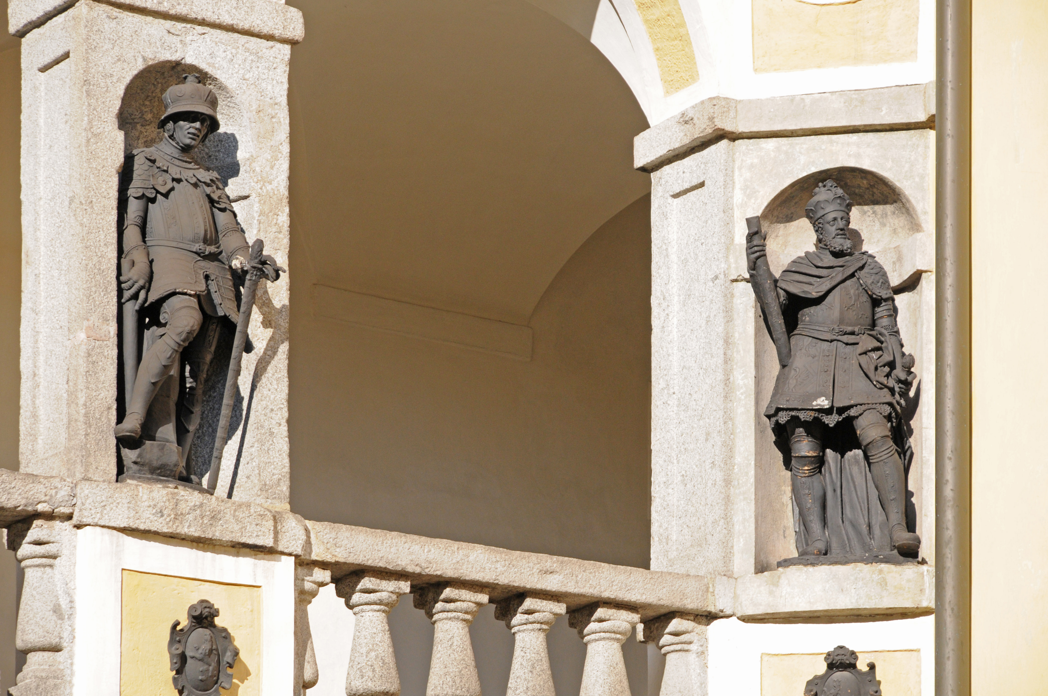 Emperors from the Hofburg Brixen by :de:Hans Reichle. "Graf Sigopert" on the left and on the right "Herzog Ernst der Eiserne"